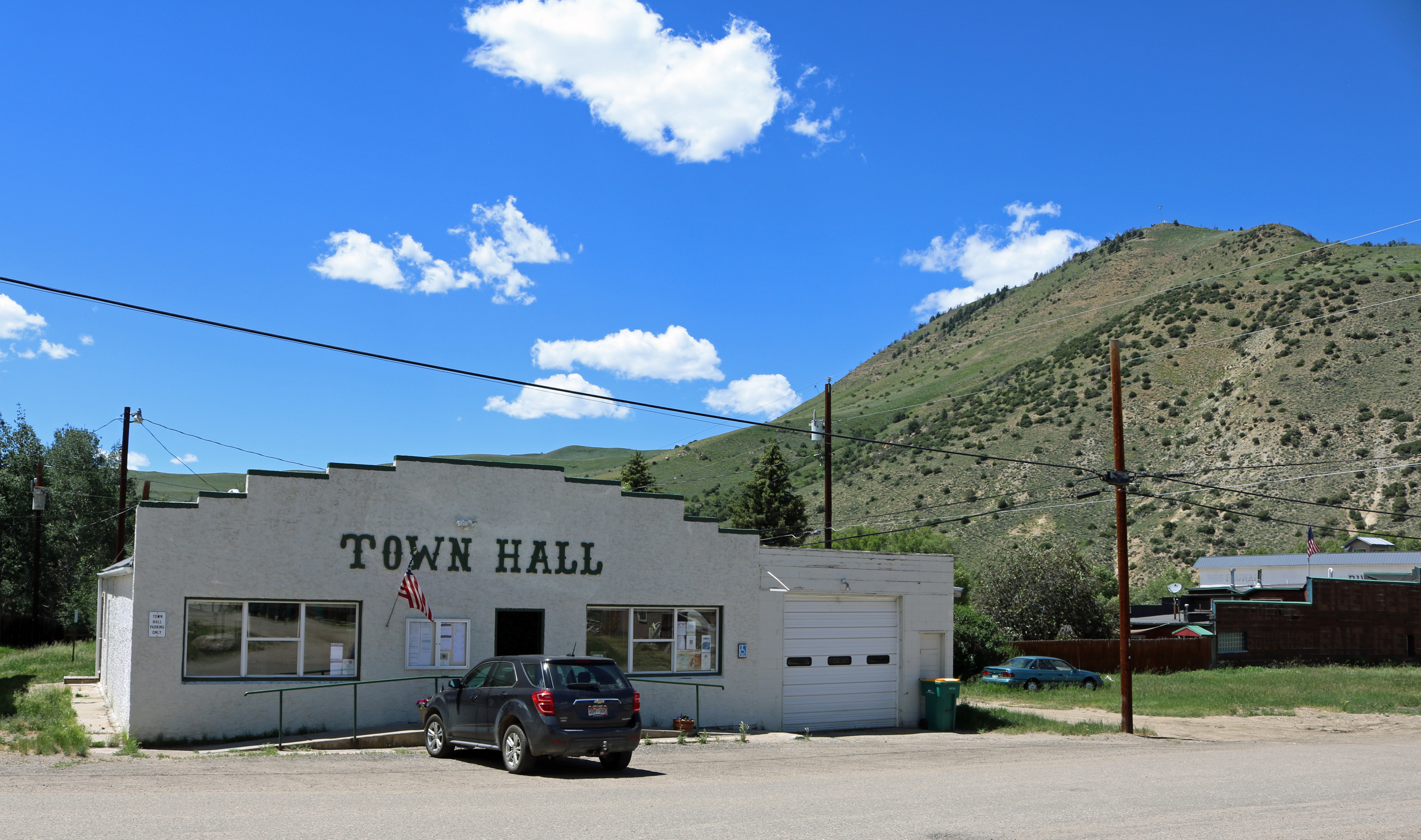 The town Hall for Hot Sulphur Springs, Colorado. It is located at 513 Aspen Street in Hot Sulphur Springs, Colorado.